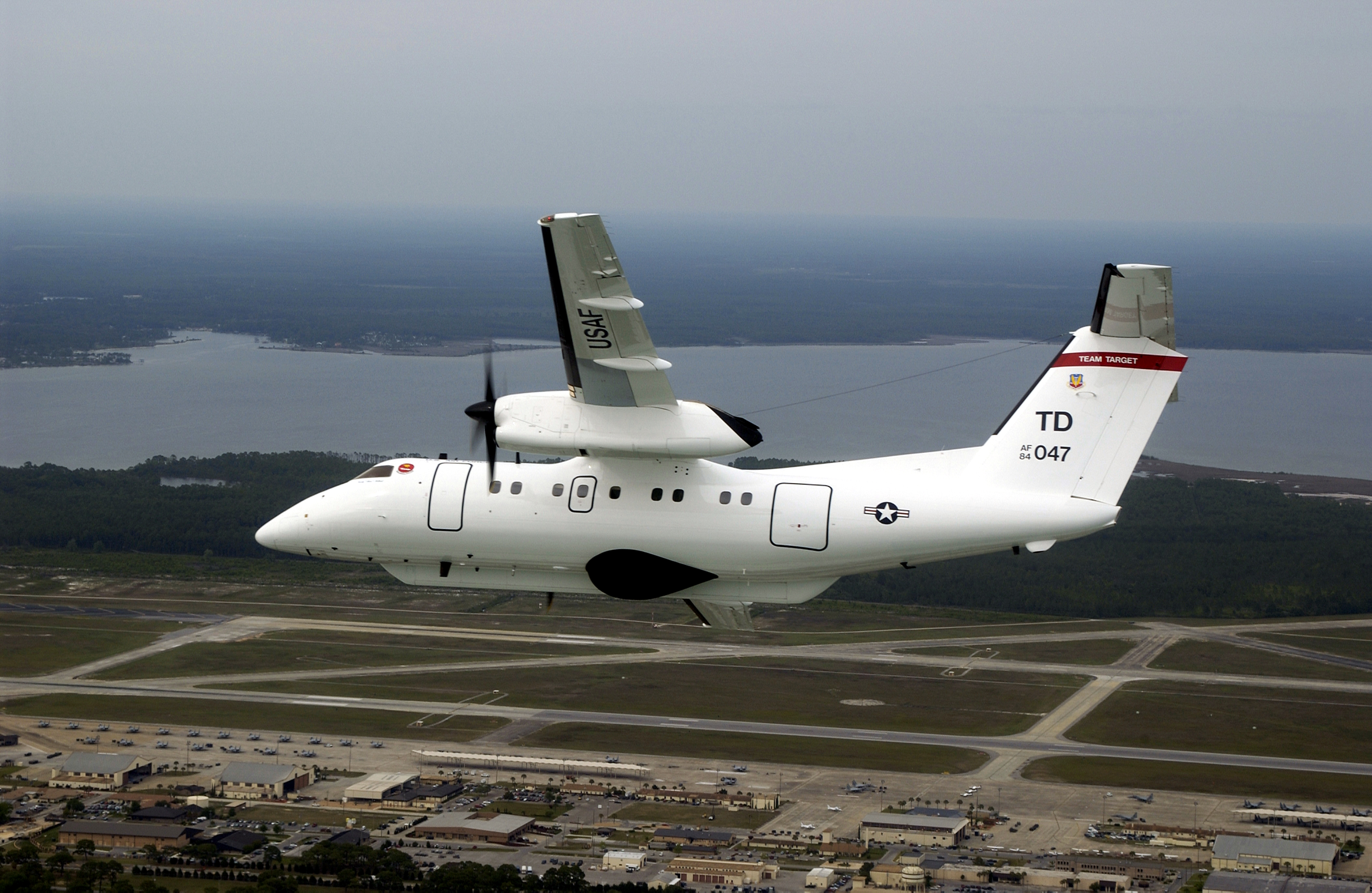 Where did it go: Over Tyndall Air Force Base, Florida — An E-9A Widget flies through the sky to relay target telemetry during Combat Archer missions here April 21. The E-9A is assigned to the 82nd Aerial Targets Squadron. This E-9A is one of only two aircraft in the Air Force inventory and is used as an airborne platform and telemetry relay aircraft providing ocean surface surveillance and target telemetry of missiles fired for over the horizon profiles on the Gulf Ranges.